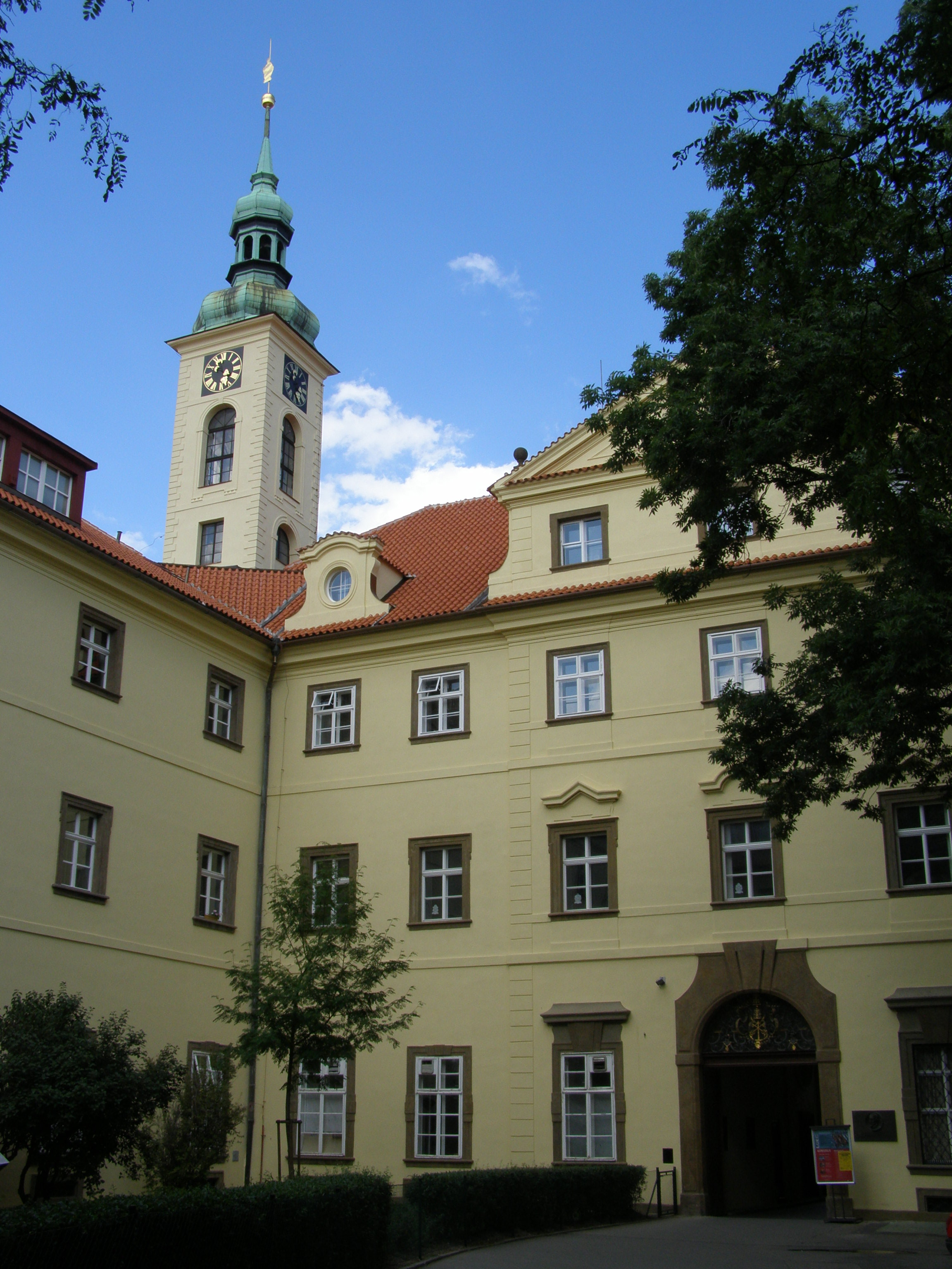 Prague, Clementinum